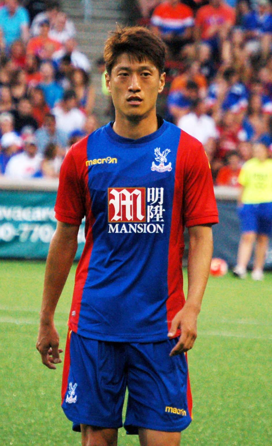 Chung-Yong Lee (PAL) Taken during an exhibition match between FC Cincinnati and Crystal Palace F.C. at Nippert Stadium in Cincinnati on July 16, 2016.